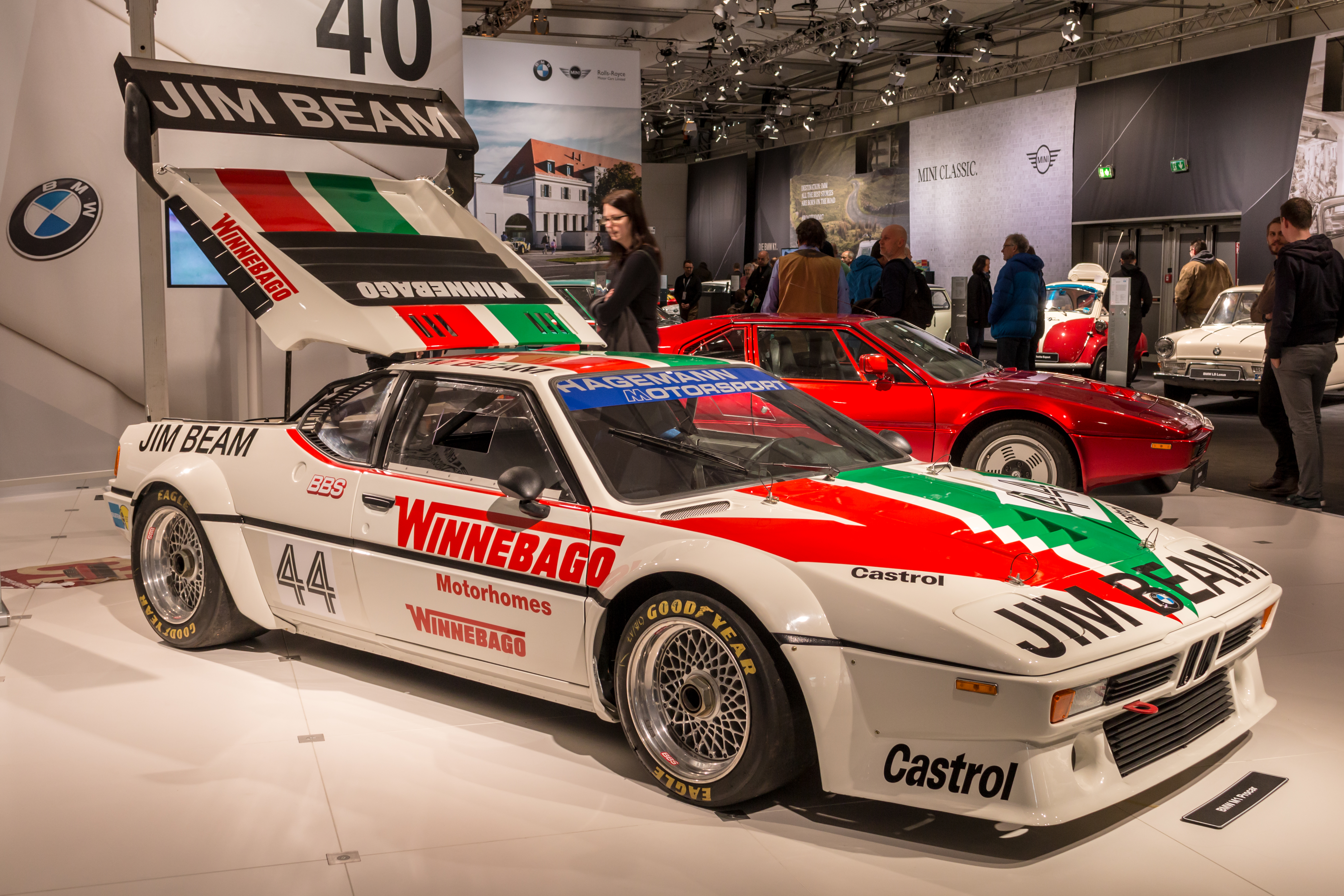 BMW M1 Procar at Techno-Classica 2018, Essen